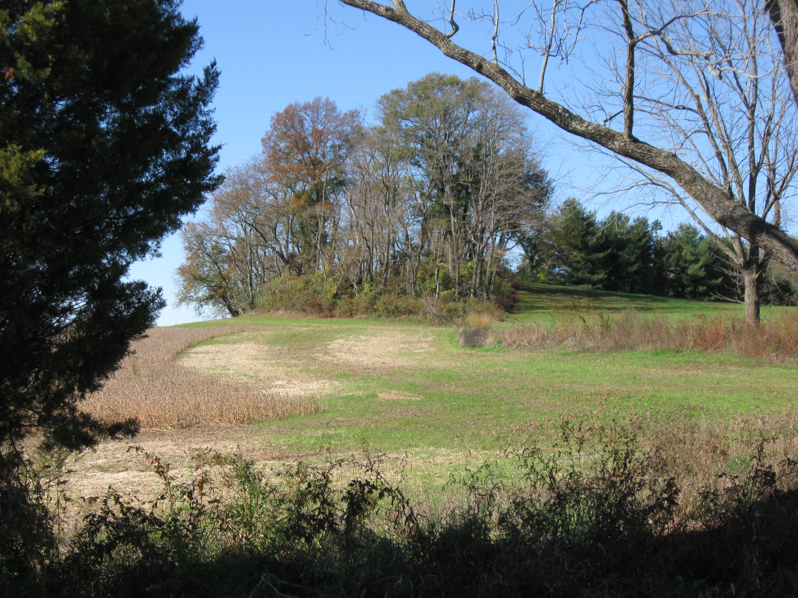 Mount Pleasant hill, corner of Mount Pleasant Road and Gaunt's Bridge Road, Mansfield Township, Burlington County, NJ